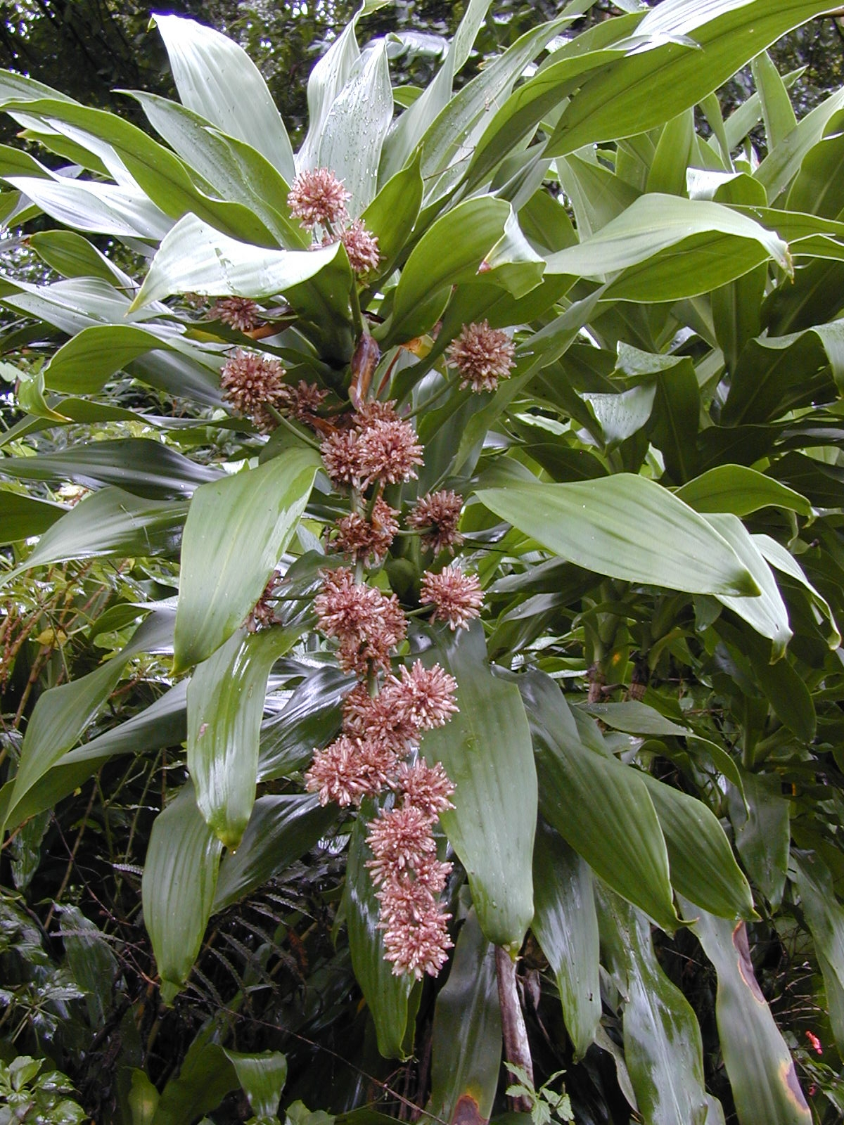 Dracaena fragrans (leaves and flowers). Location: Maui, Nahiku